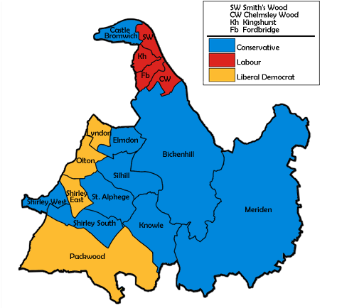 Ward map of Solihull Council with political colouring for the 1999 election.